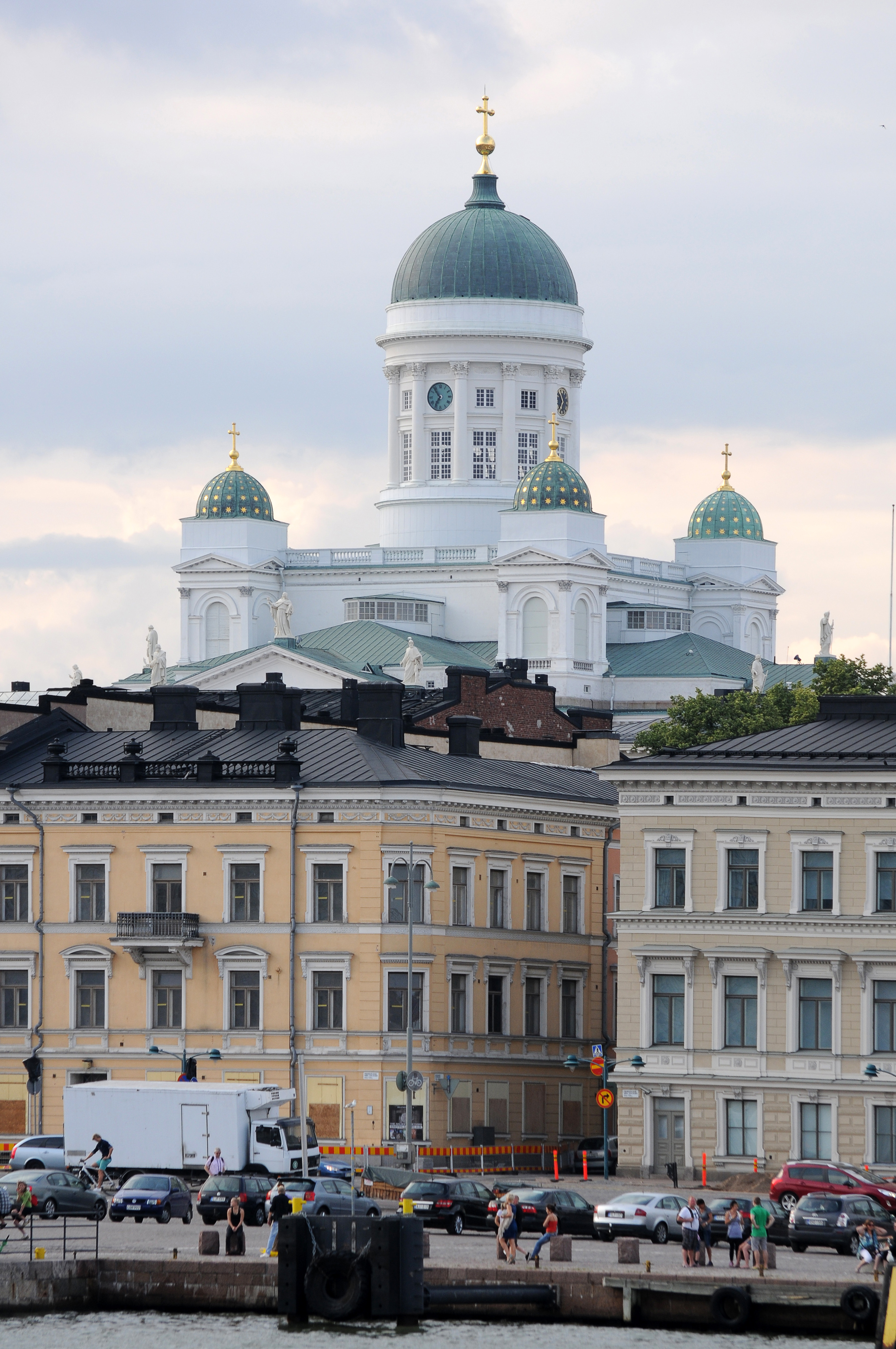 Helsinki, lutherian Cathedral from port